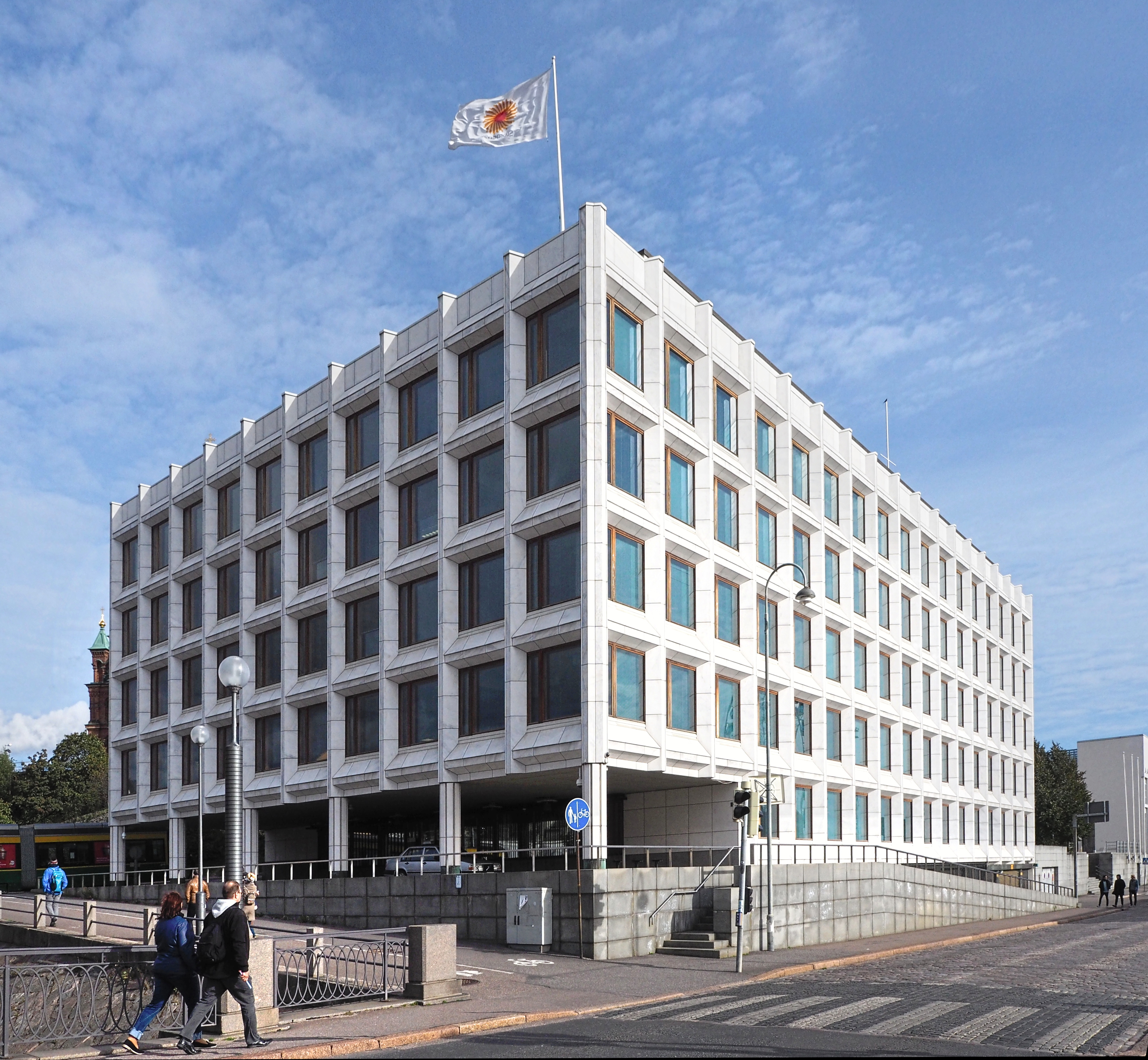 Stora Enso headquarters by Alvar Aalto (1962)